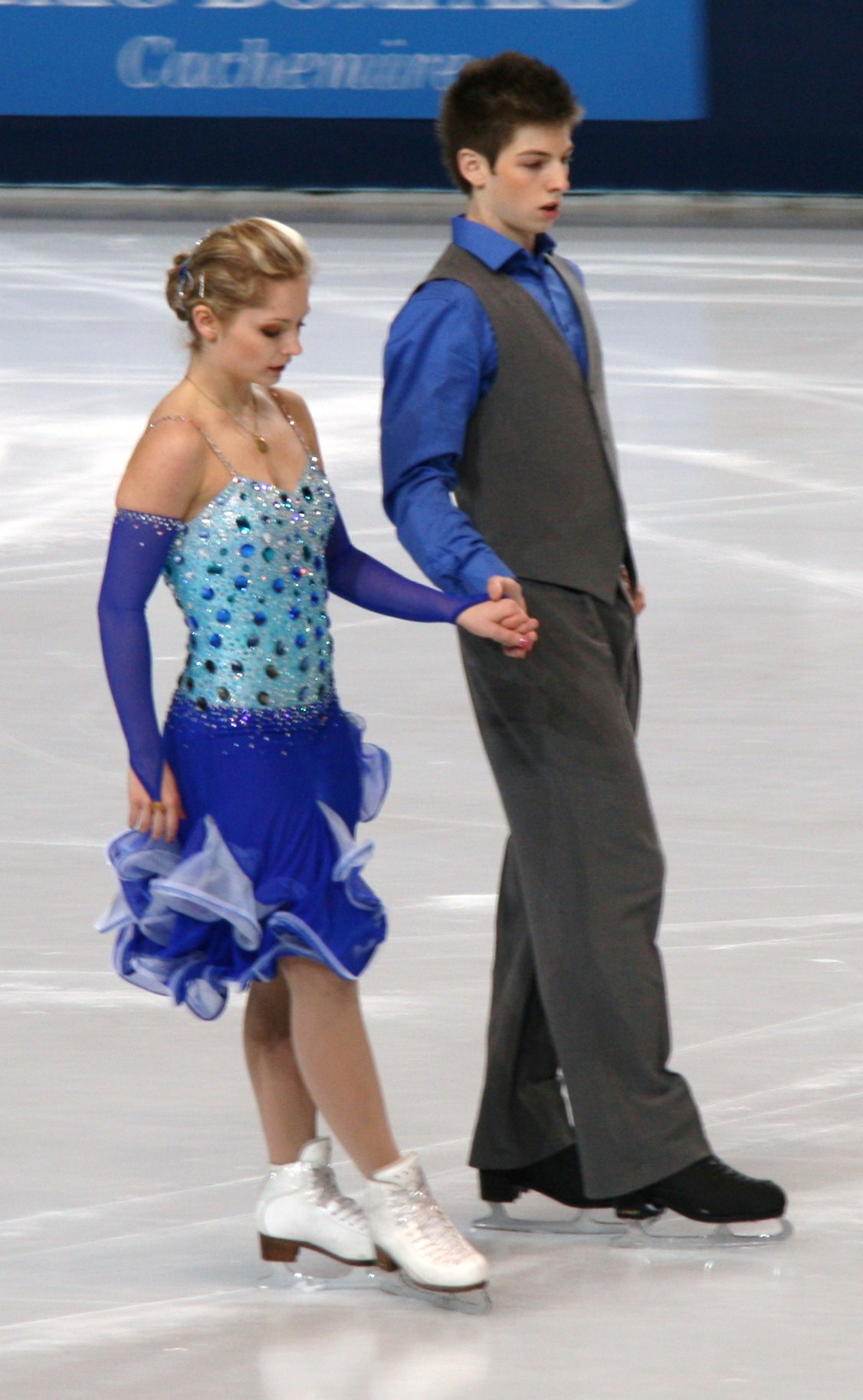 Dora Turoczi and Balazs Major at the 2010 Trophée Eric Bompard